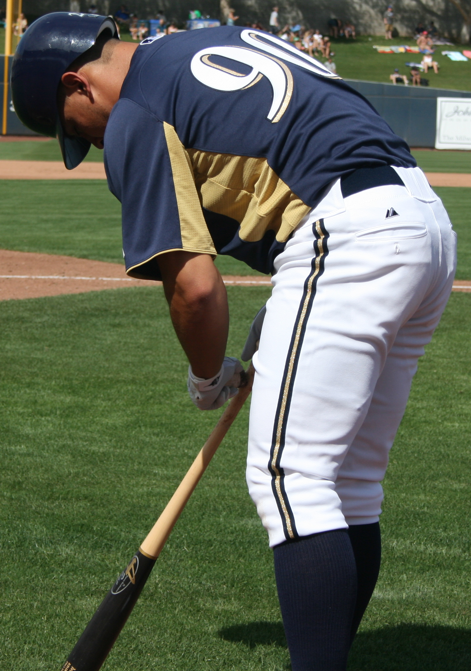 Erik Komatsu prepares to bat for the Milwaukee Brewers during spring training in 2011.